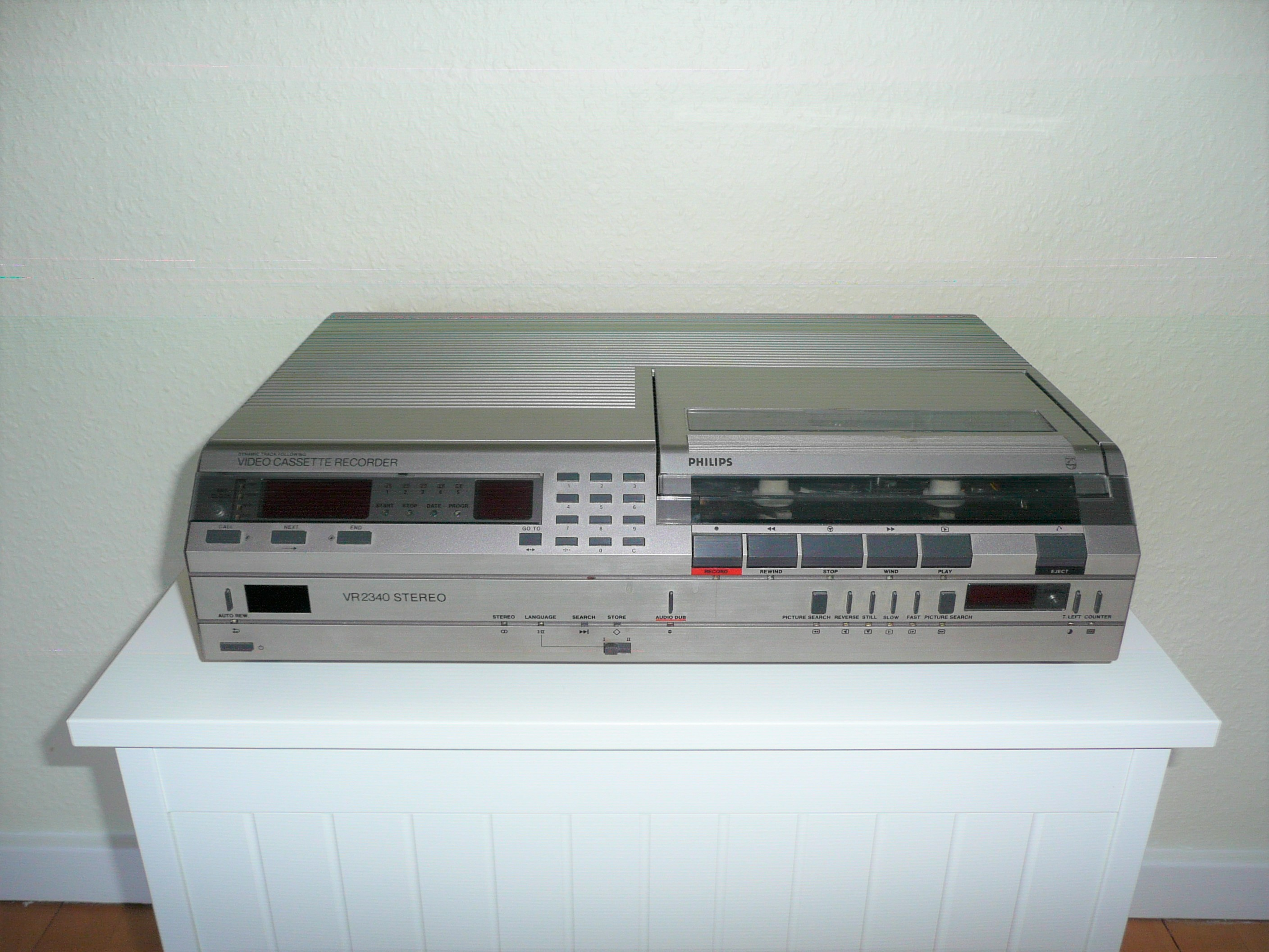 Philips VR 2340. A Video 2000 stereo recorder.